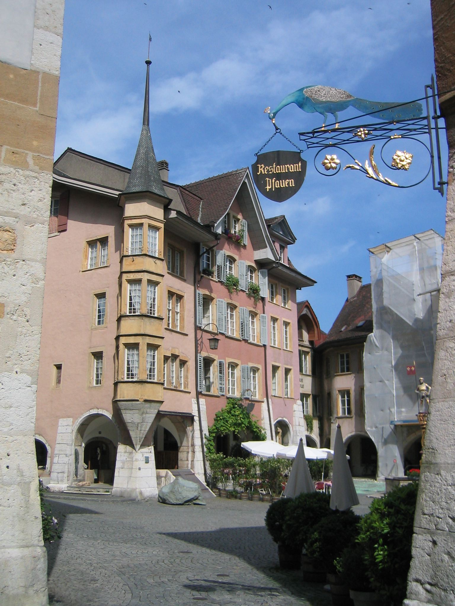 Biel/Bienne, Ring